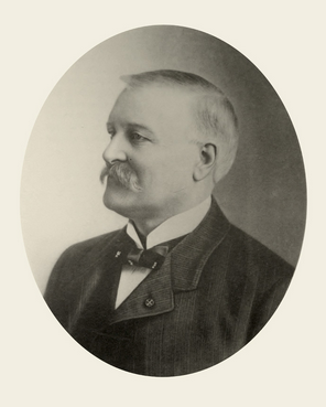 John Barber White,President Missouri Lumber & Mining Company